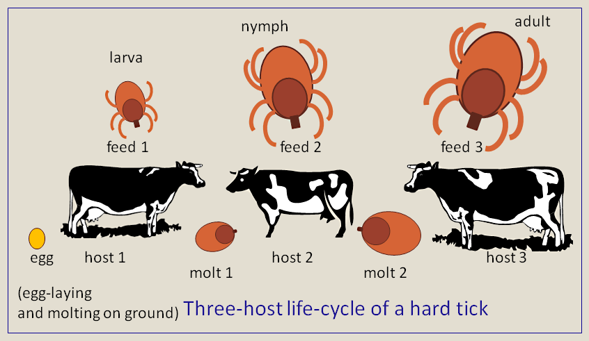 Life-cycle of a typical three-host tick (such as Amblyomma variegatum or Rhipicephalus appendiculatus) feeding on thee separate individual cows.